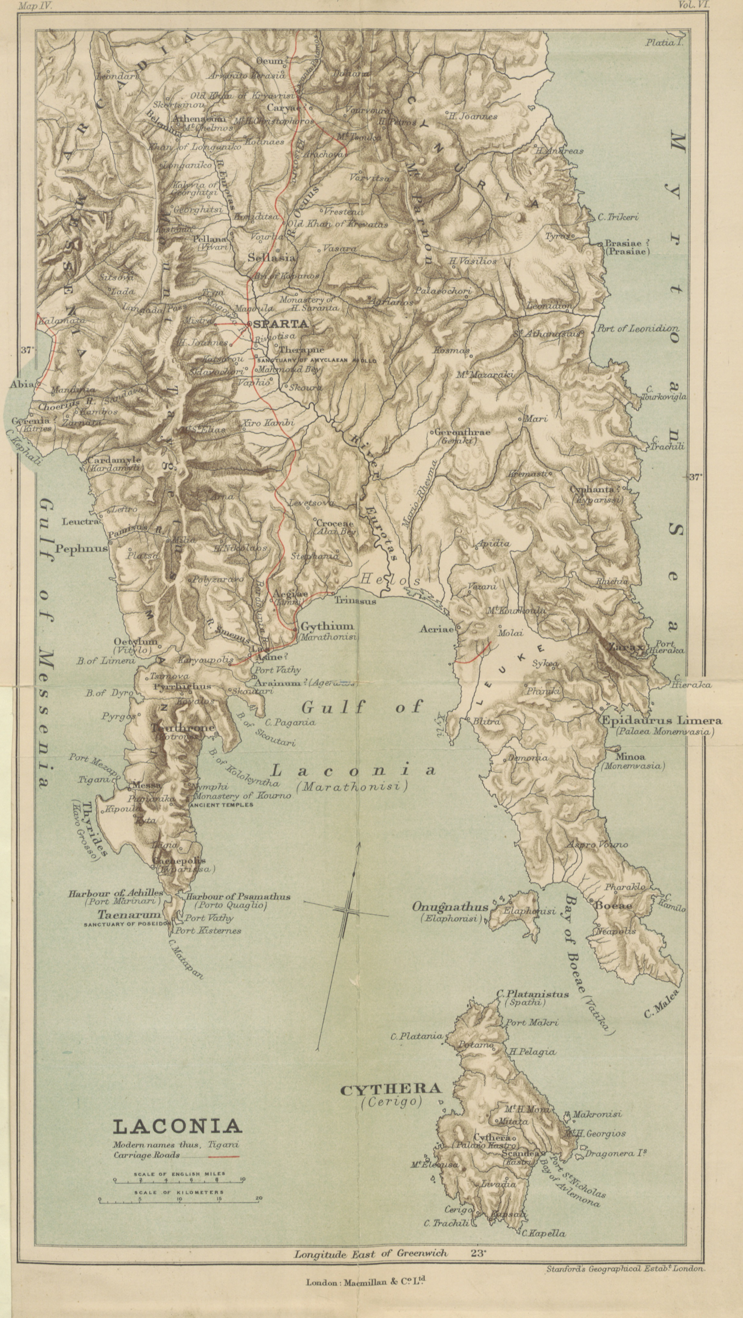 View this map on the BL Georeferencer service. Image taken from: Title: "Pausanias's Description of Greece. Translated with a commentary by J. G.Frazer" Contributor: Frazer, James George - Sir Shelfmark: "British Library HMNTS 010127.b.36." Volume: 06 Page: 223 Place of Publishing: London Date of Publishing: 1898 Publisher: Macmillan & Co. Issuance: monographic Identifier: 002798431 Explore: Find this item in the British Library catalogue, 'Explore'. Open the page in the British Library's itemViewer (page image 223) Download the PDF for this book Image found on book scan 223 (NB not a pagenumber)Download the OCR-derived text for this volume: (plain text) or (json) Click here to see all the illustrations in this book and click here to browse other illustrations published in books in the same year. Order a higher quality version from here.